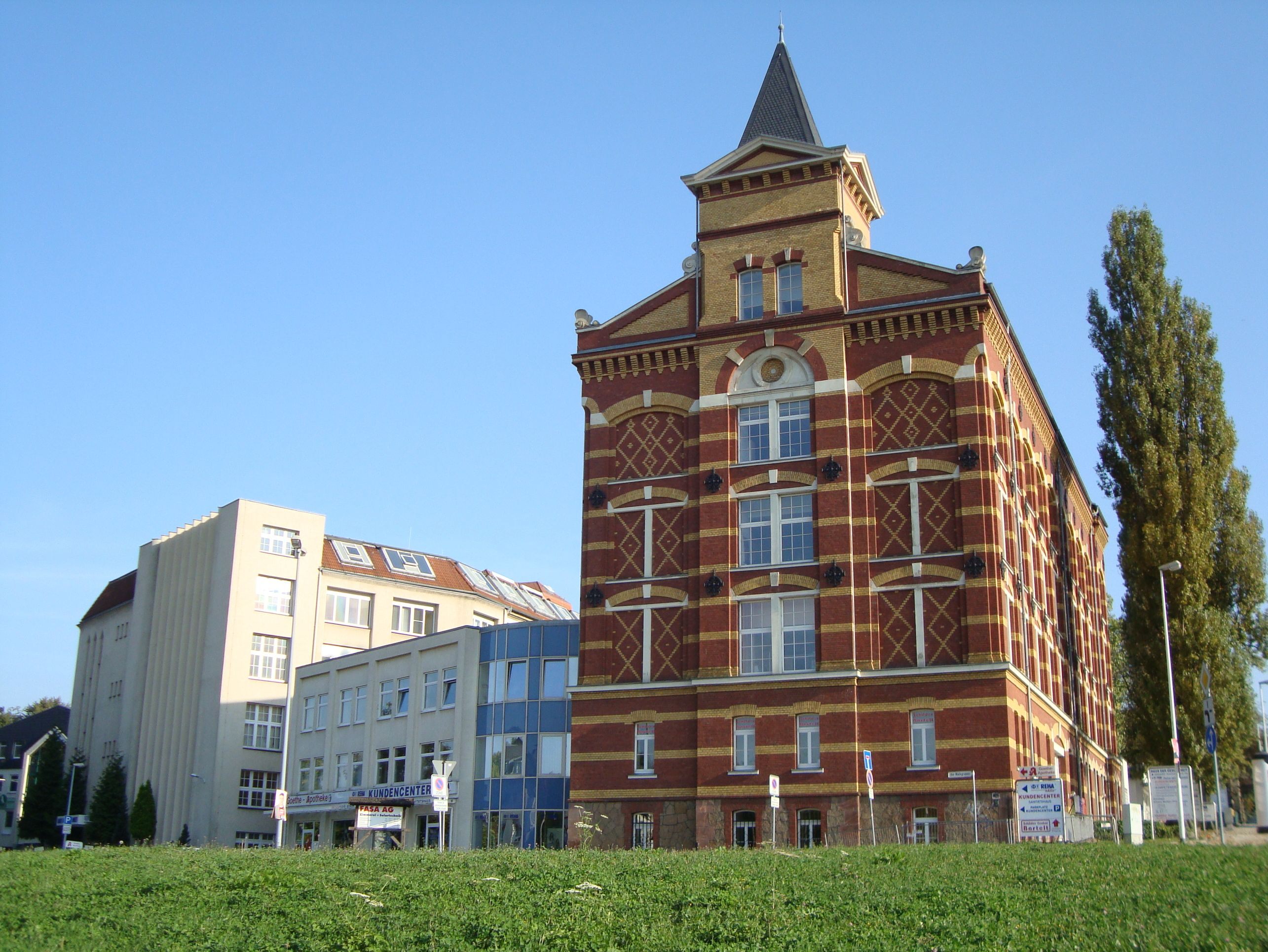 buildings formerly used by the hosiery factory Moritz Samuel Esche in Chemnitz, Am Walkgraben 5, first built in 1886 by Eugen Esche, currently used as an office and medical center